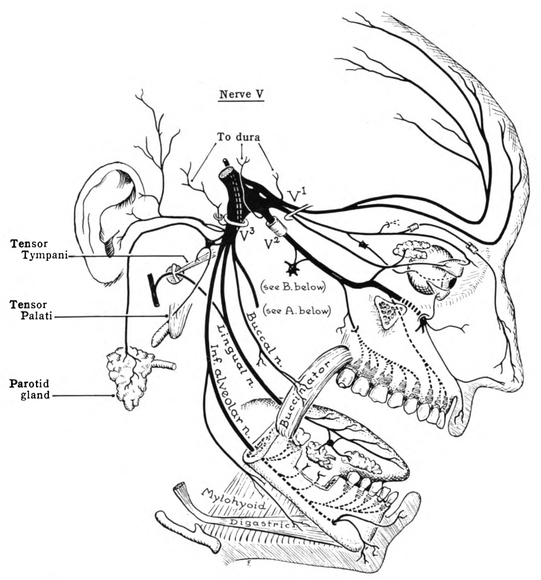 Scheme of the Distribution of the Trigeminal Nerve